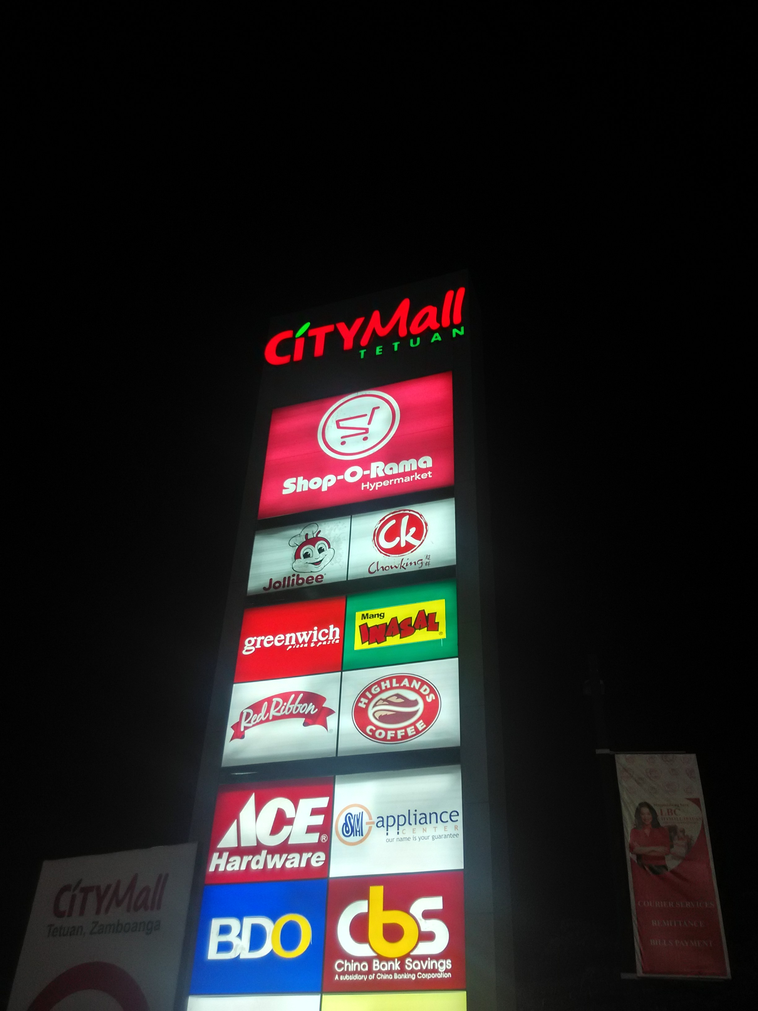 The sinage billboard of CityMall in Tetuan, Zamboanga City